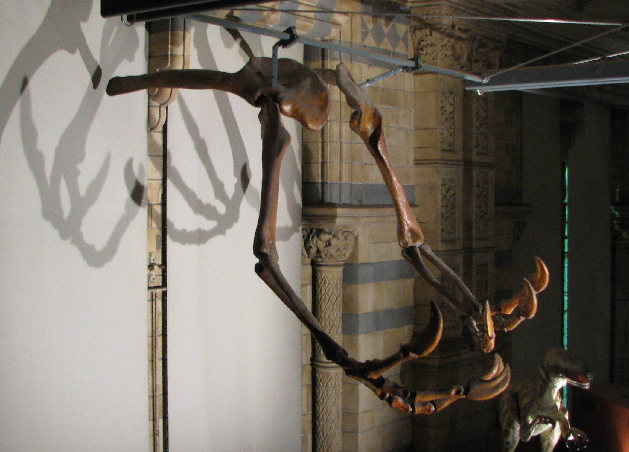 Natural History Museum (27)